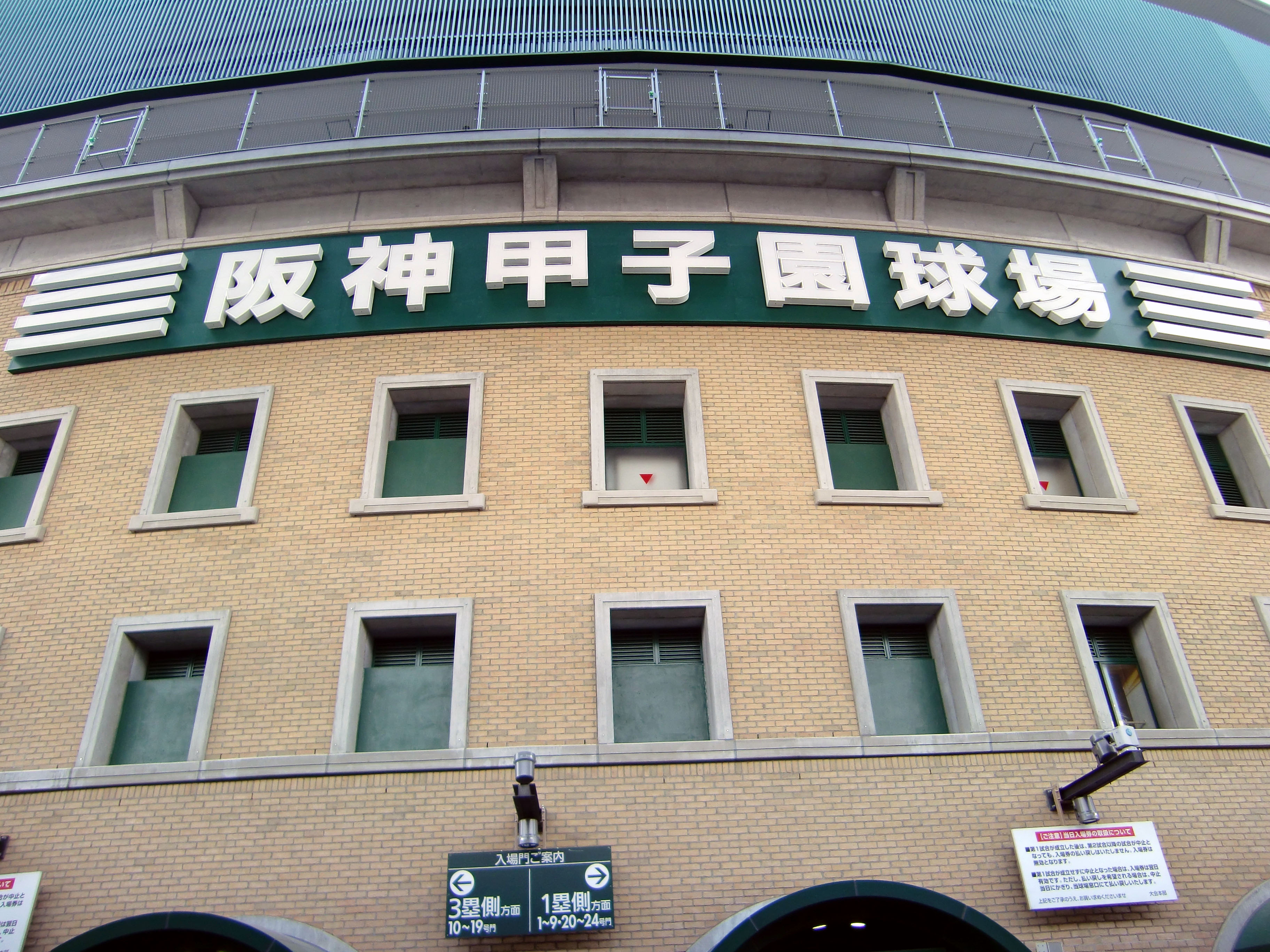 Hanshin Koshien Stadium,1-82 Koshiencho Nishinomiya-city Hyogo Japan.